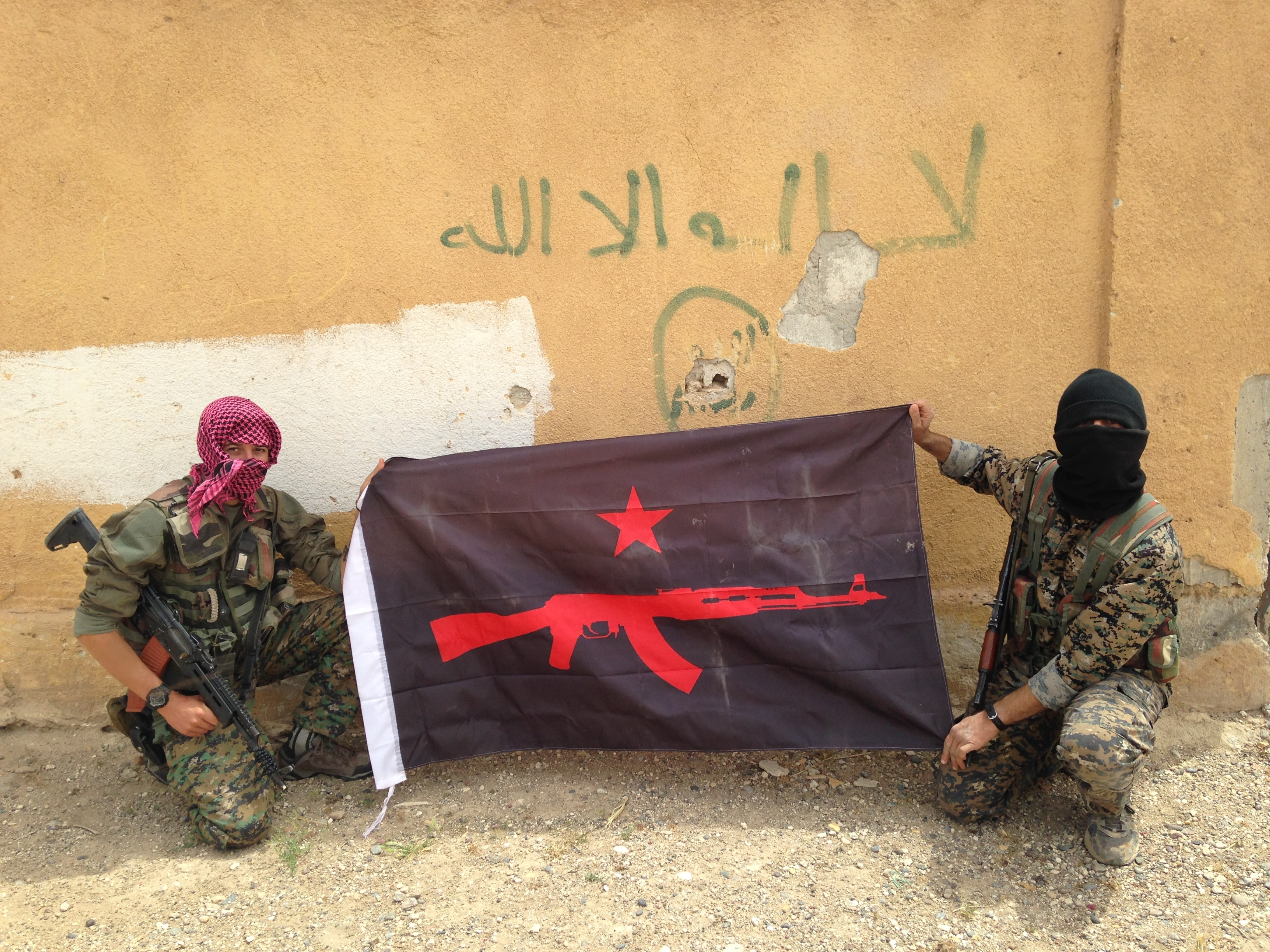 IRPGF fighters present their flag at a former ISIL administrative building in the suburbs of Raqqa during the battle for the city. The image was taken in May 2017.